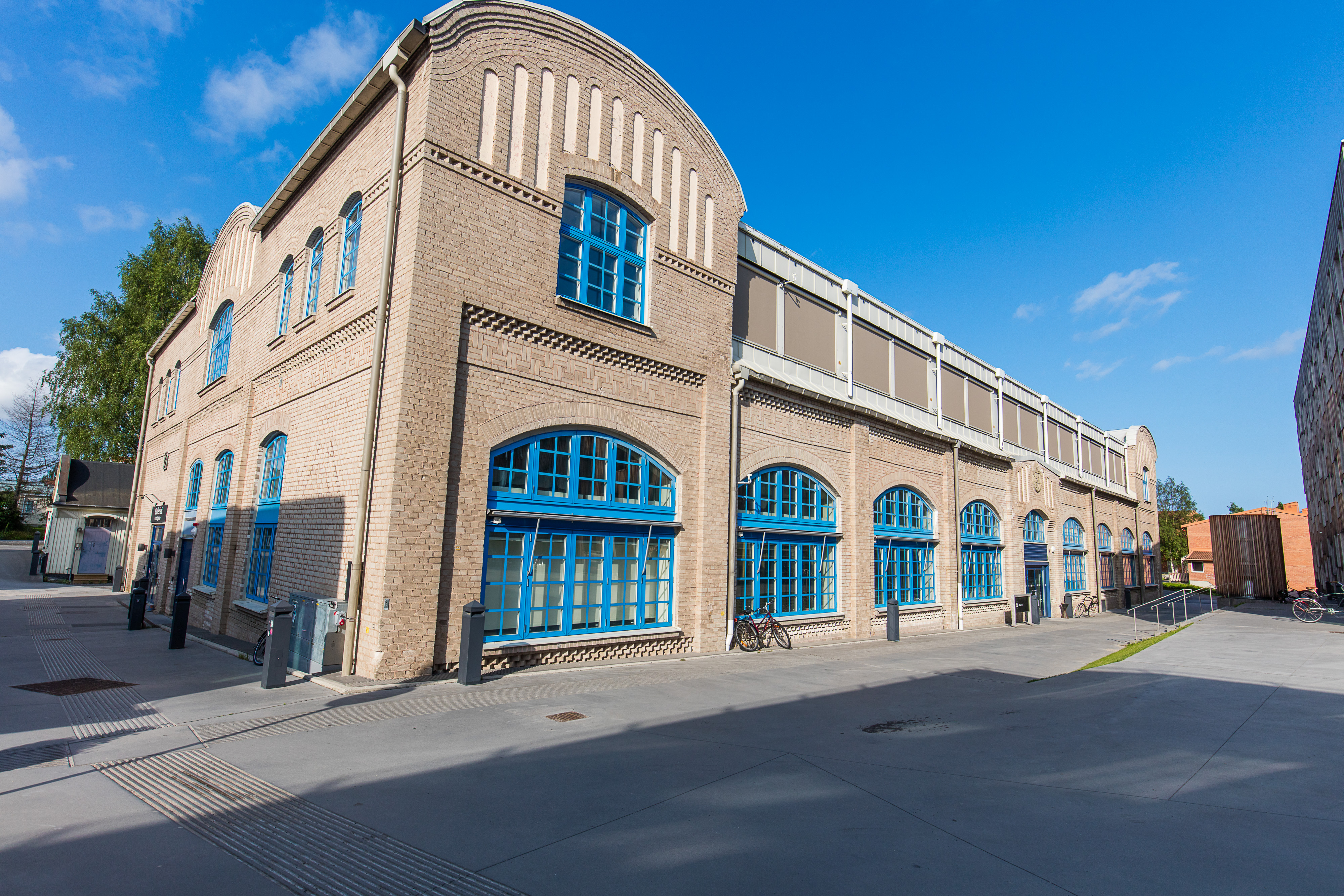 Umeå träsliperi was once a pulp mill(?), but has since then hosted Umeå Academy of Fine Arts (1987–2014) and is now home to the incubator Sliperiet.